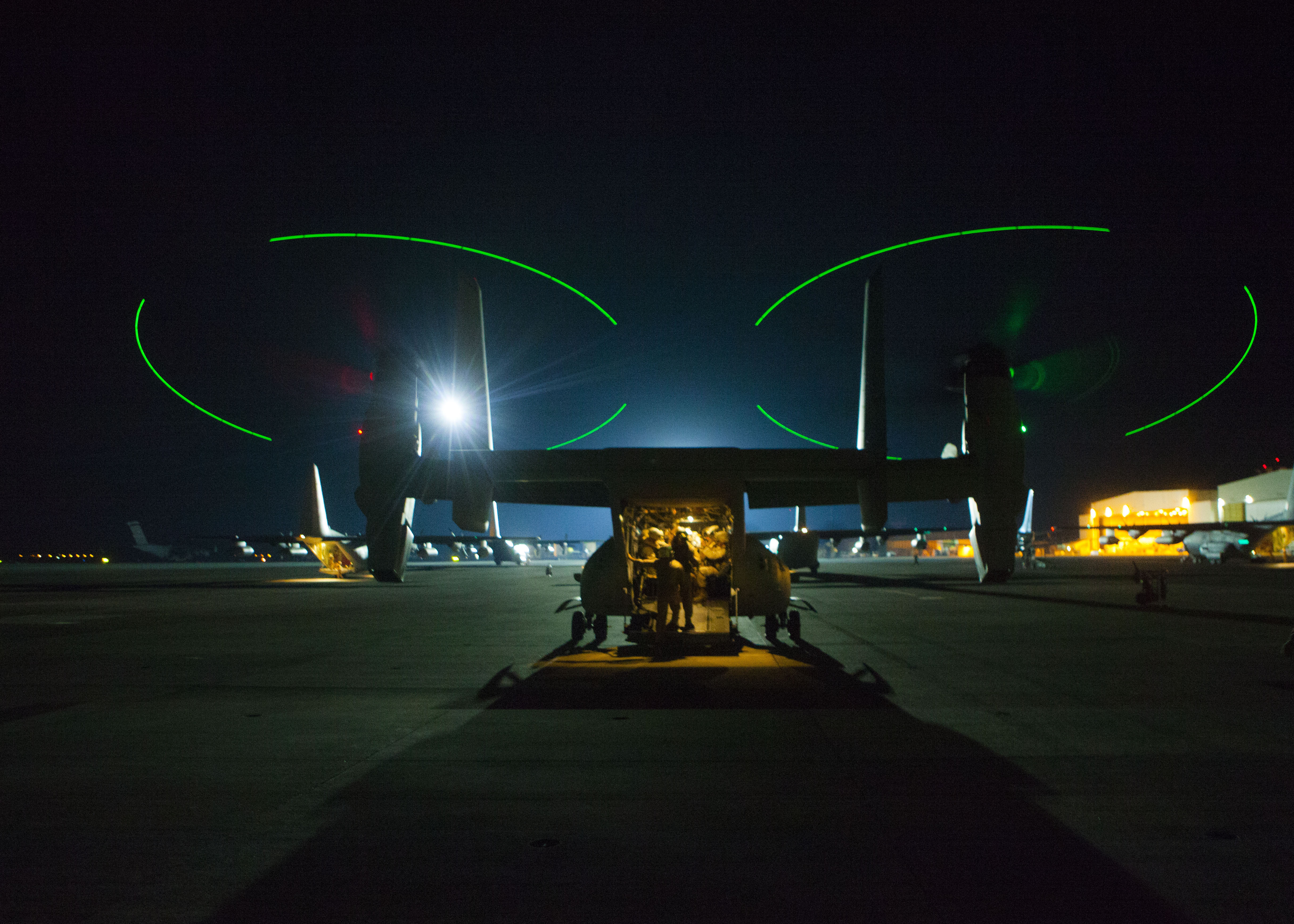 Crew members at Naval Air Station Sigonella conduct final inspections on an MV-22B Osprey with Special-Purpose Marine Air-Ground Task Force Crisis Response prior to departure, July 26, 2014. The Department of State, in coordination with the U.S. Ambassador for Libya, requested Department of Defense support for a military-assisted departure of embassy personnel. SP-MAGTF Crisis Response is a self-deploying, self-sustaining task force with the capacity to provide a rapid-response capability to U.S. Africa Command. (U.S. Marine Corps photo by 1st Lt. Maida Kalic)